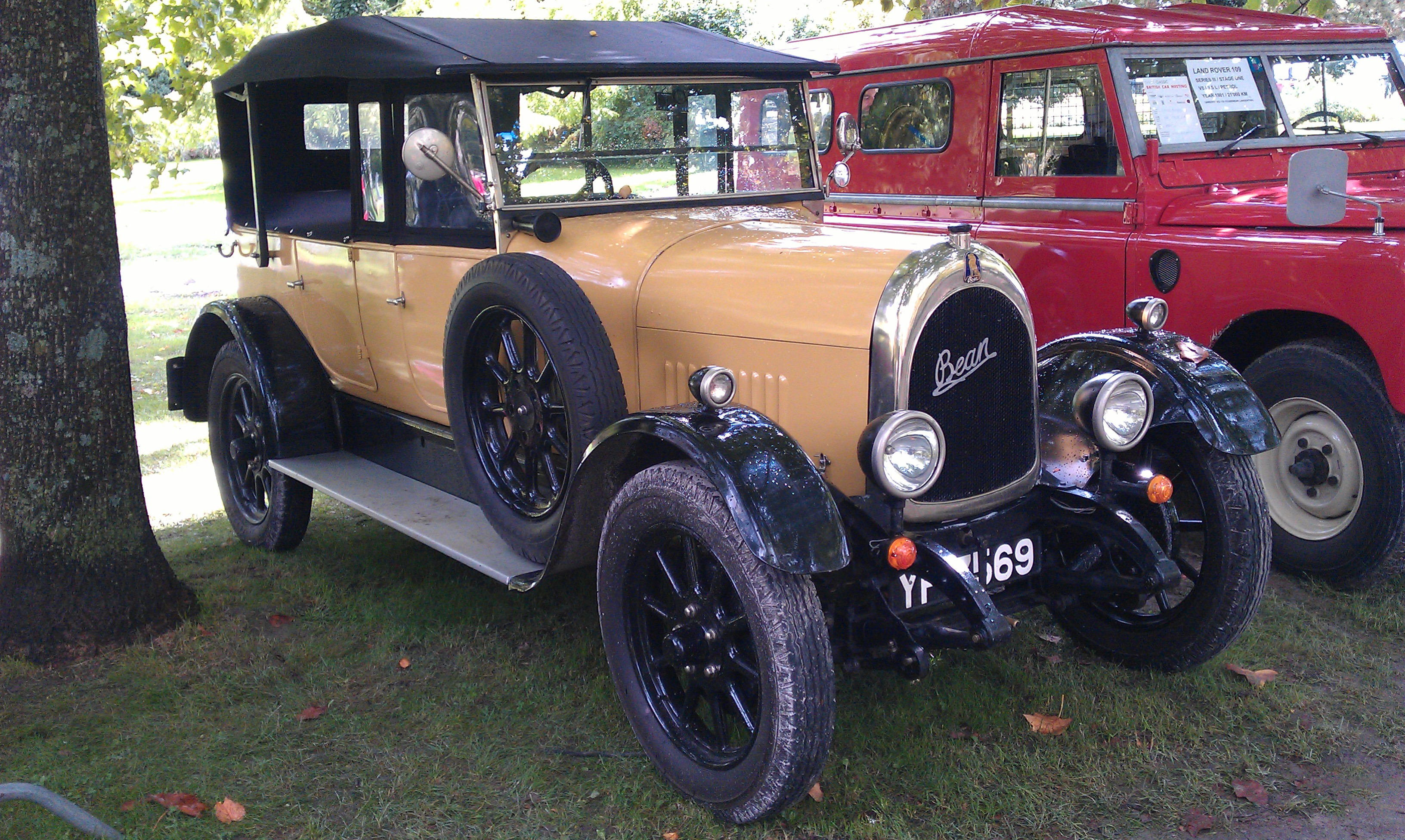 1926 Bean 14 HP